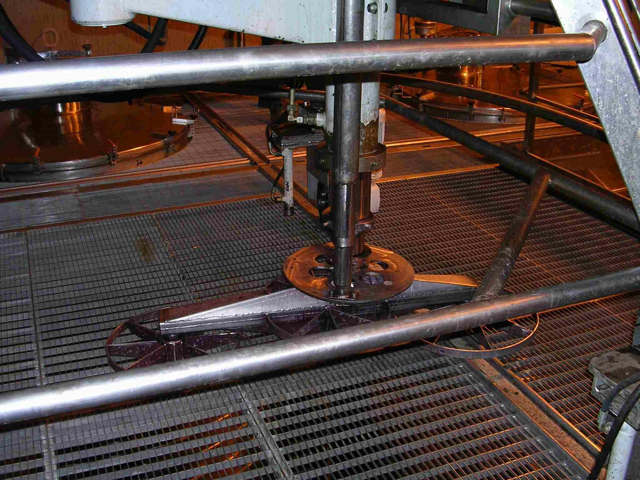 hydraulic system to punch the cap during the fermentation of red wines. Traditionnal in Burgundy (France)